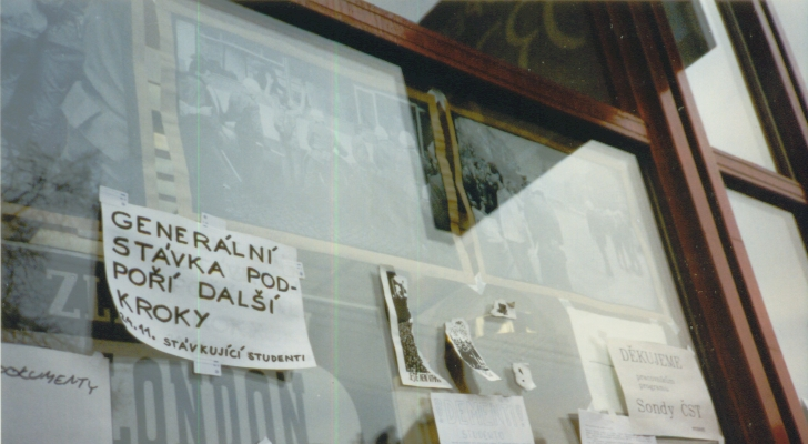 Announcements in store window in November 1989